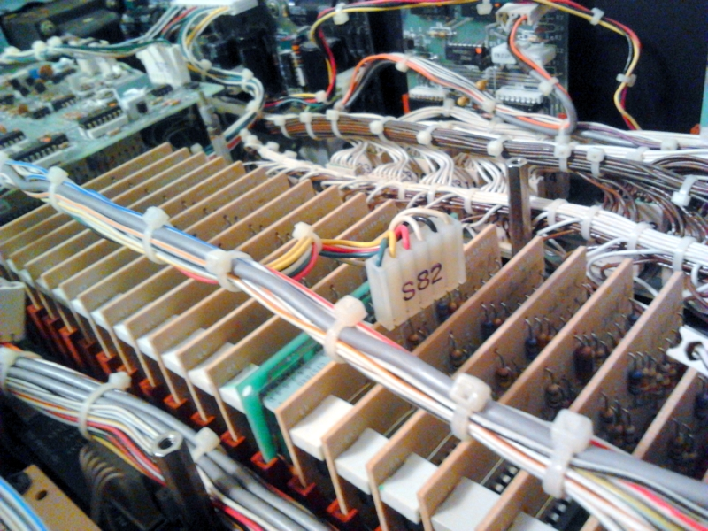 Inside the Polymoog, there are polycom cards which drive the voices.